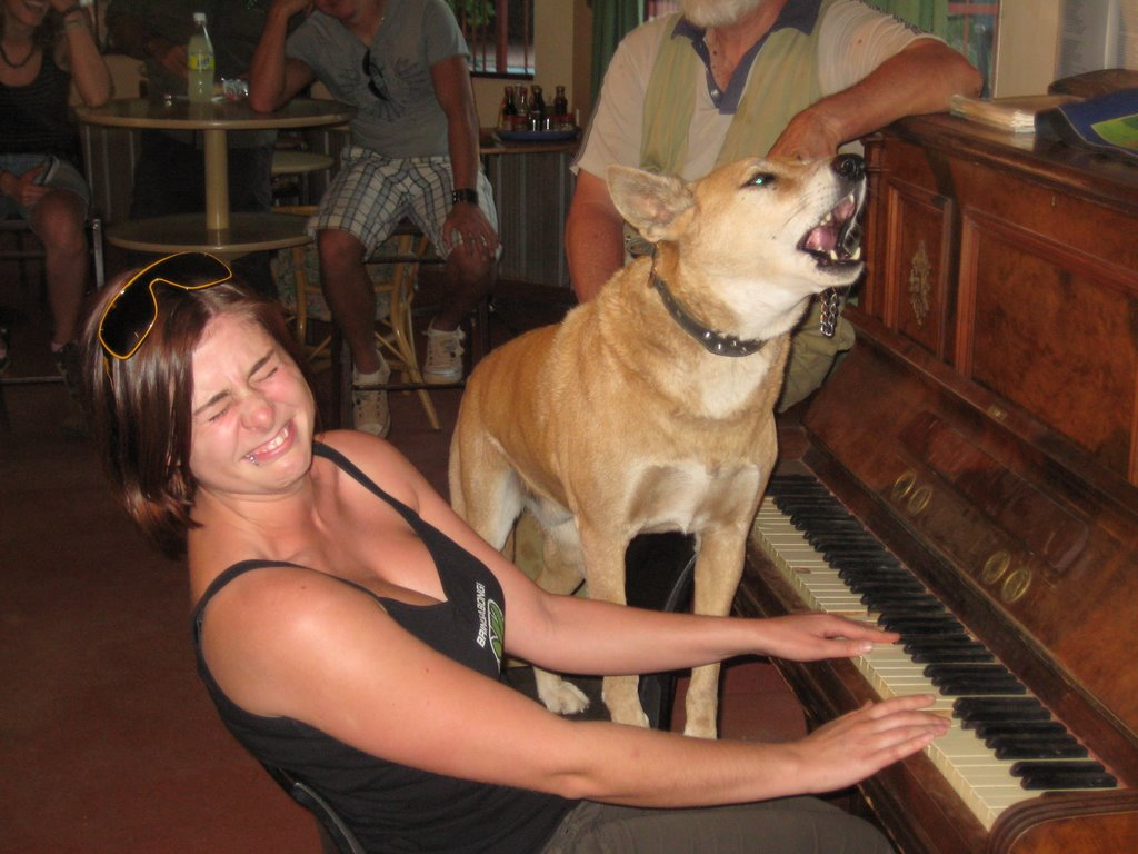 hell, that was soooo funny. This dingo actually howls when someone is playing the piano and he does it LOUD AND PERSISTENT! The poor girl is even normally easily scared but she did a good job. You find him south of Alice Springs in the last roadhouse on the Stuart Highway before you reach the city.